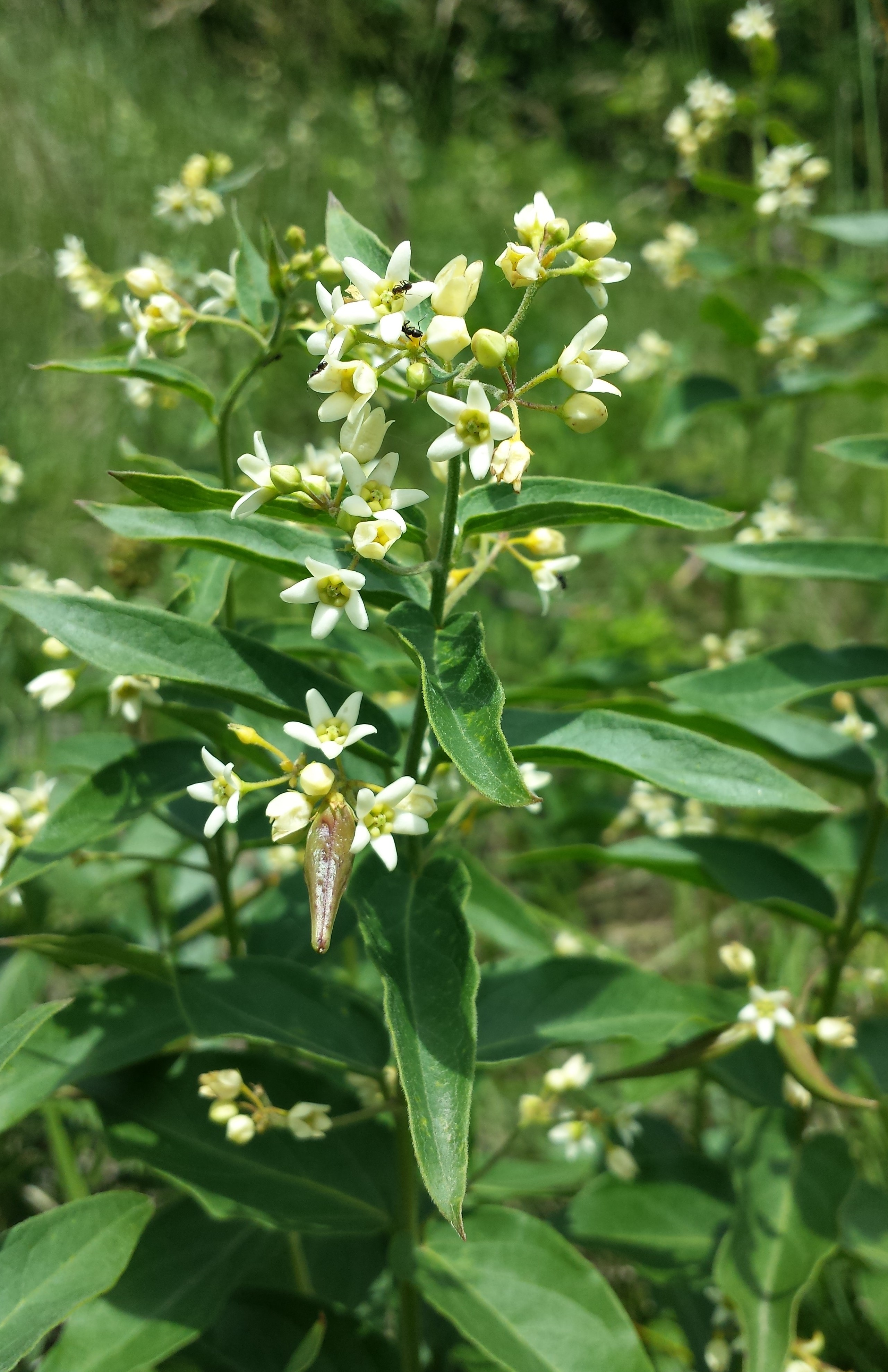 Habitus Taxon: Vincetoxicum hirundinaria (sensu Fischer et al. EfÖLS 2008 ISBN 978-3-85474-187-9) Location: Devínska Kobyla, Bratislava, Slovakia - ca. 200 m a.s.l. Habitat: dry grassland